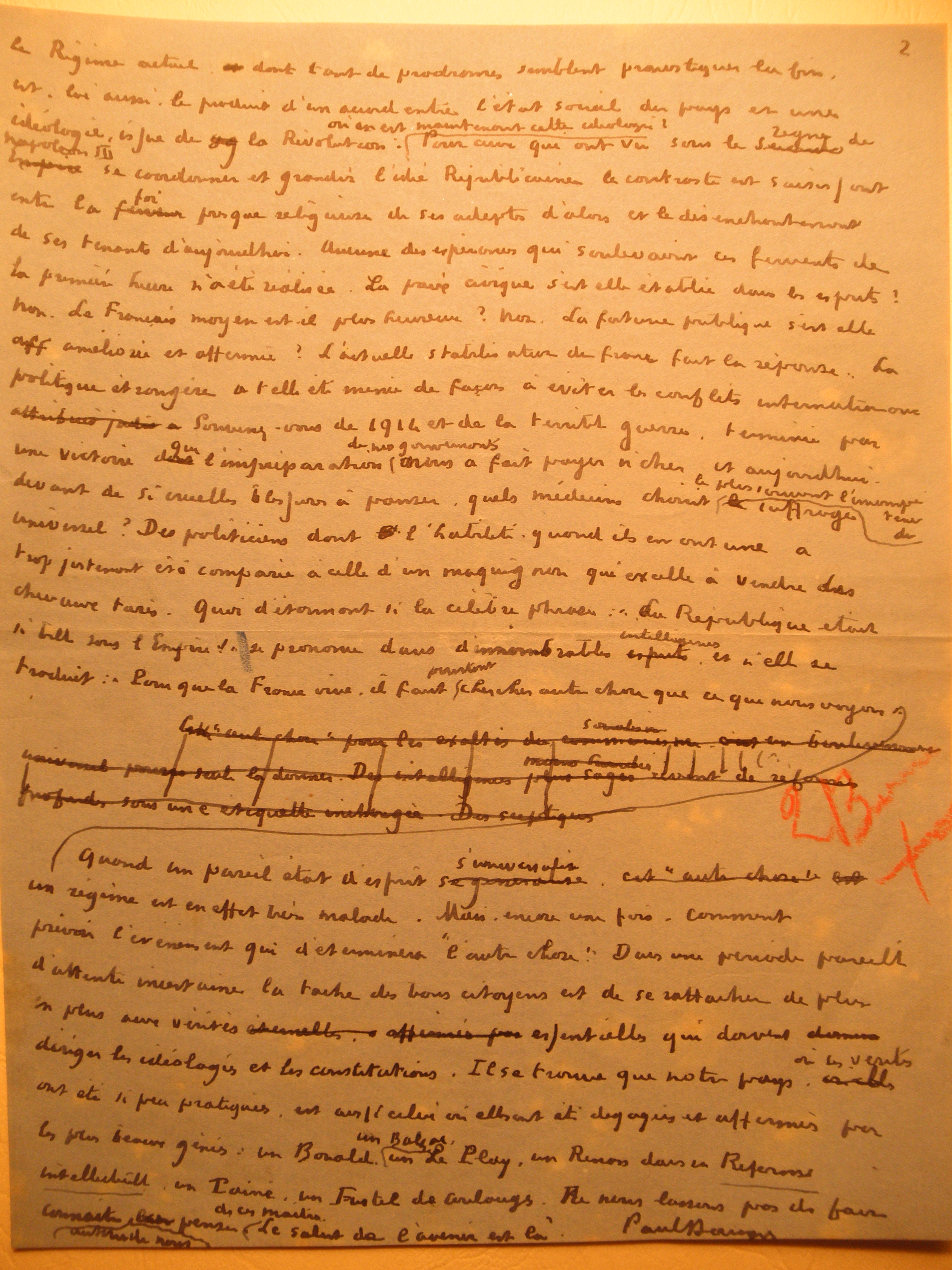 manuscrit 1914 1929